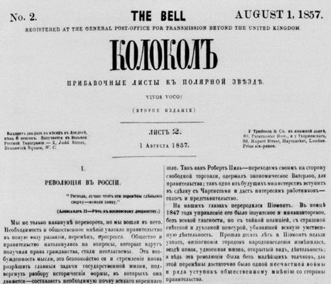 Russian newspaper "Kolokol" (The Bell), 1857, second edition.